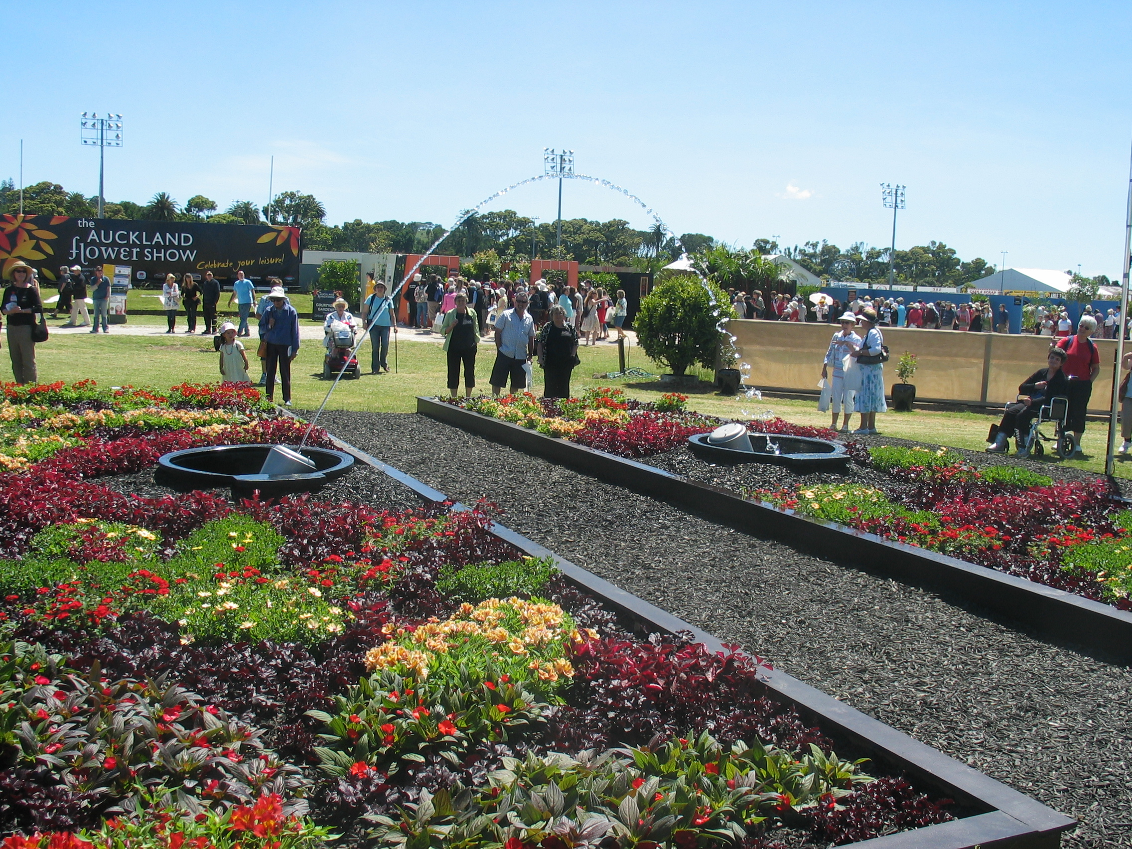 Water sculpture, Auckland Flower Show, Alexandra Park, Auckland, New Zealand. The two water cannons shoot jets of water into the opposite pools, sometimes alternating, sometimes simultaneously.